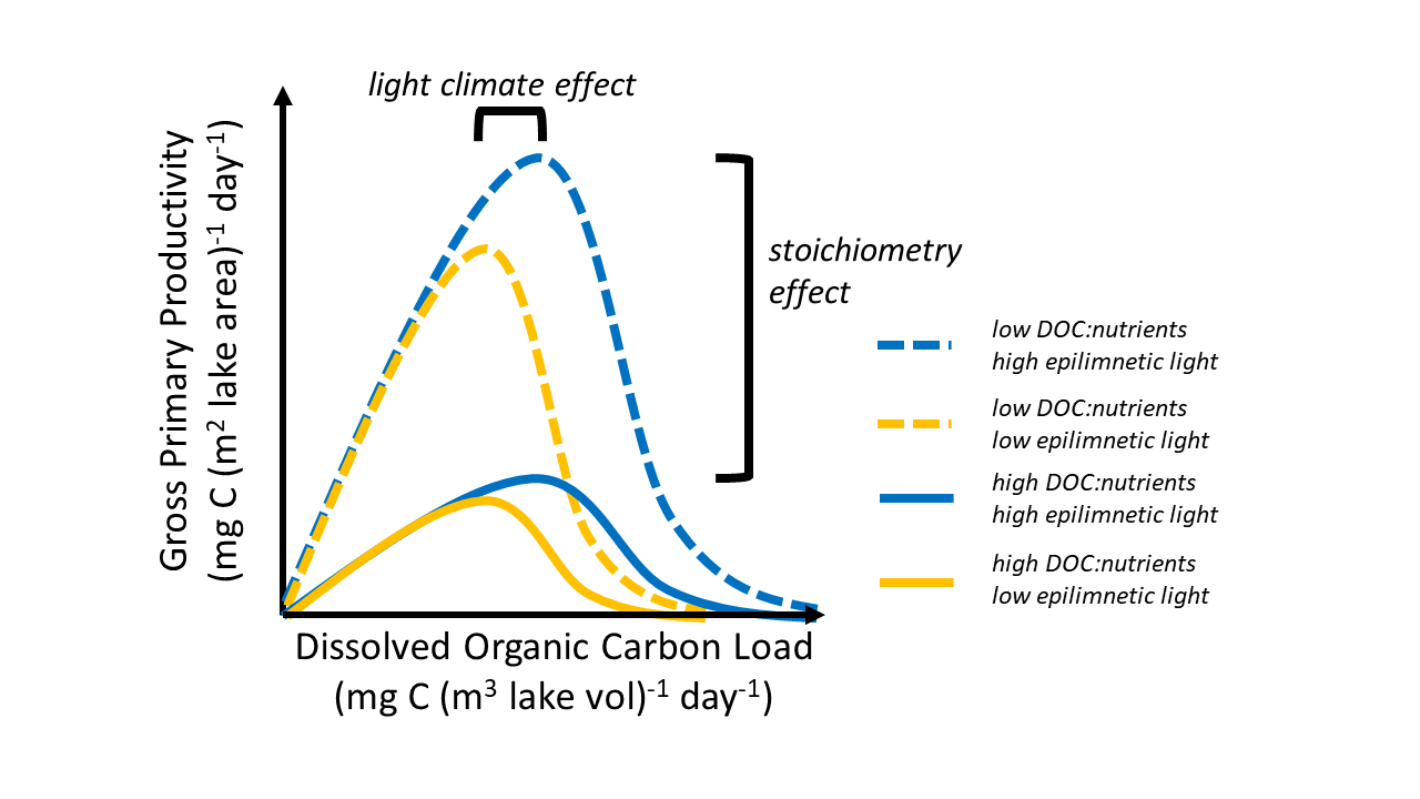 Conceptualized indirect effects of dissolved organic carbon (DOC) on gross primary productivity through interacting effects of DOC impacts on light and nutrient availability in lakes. As DOC load increases, there is a release from nutrient limitation due to load of associated nutrients as well as an increase in light limitation due to the shading effect of DOC in the lake water column. Interactions between lake size and chromophoricity of DOC impacts the light climate experienced by algae at a given DOC loading rate and the ratio of DOC to nutrients (stoichiometry) of the DOC load impacts the nutrient availability at a given DOC loading rate. Figure is redrawn from Kelly et al. 2018